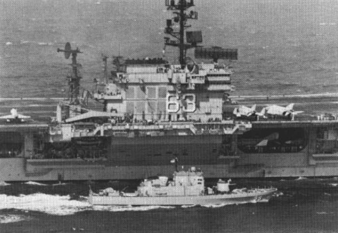 The U.S. Navy gunboat USS Beacon (PG-99) is refueled by the aircraft carrier USS Kitty Hawk (CVA-63), circa 1970.